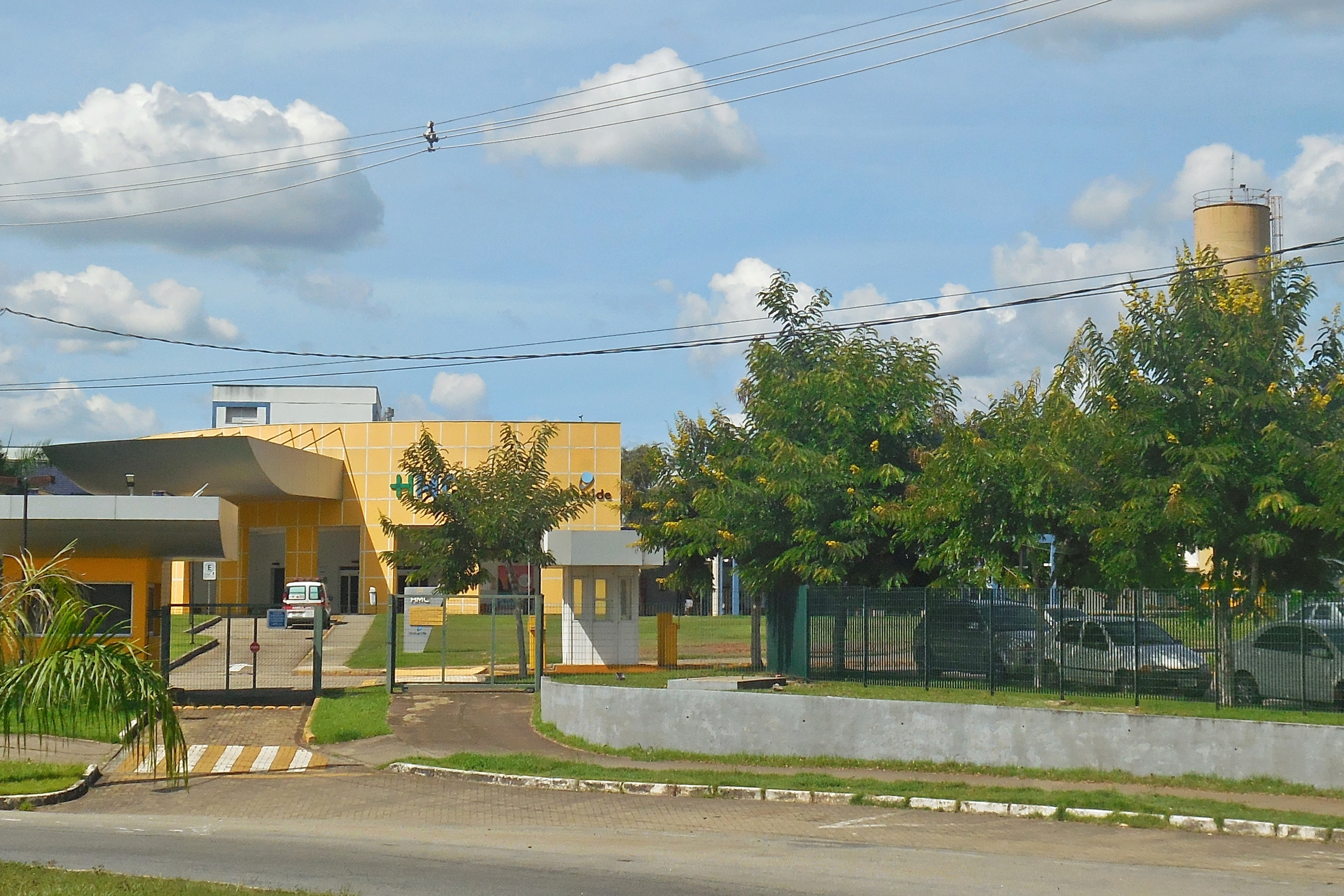 Partial view of the unit 2 of the Márcio Cunha hospital, in Ipatinga, Minas Gerais, Brazil.